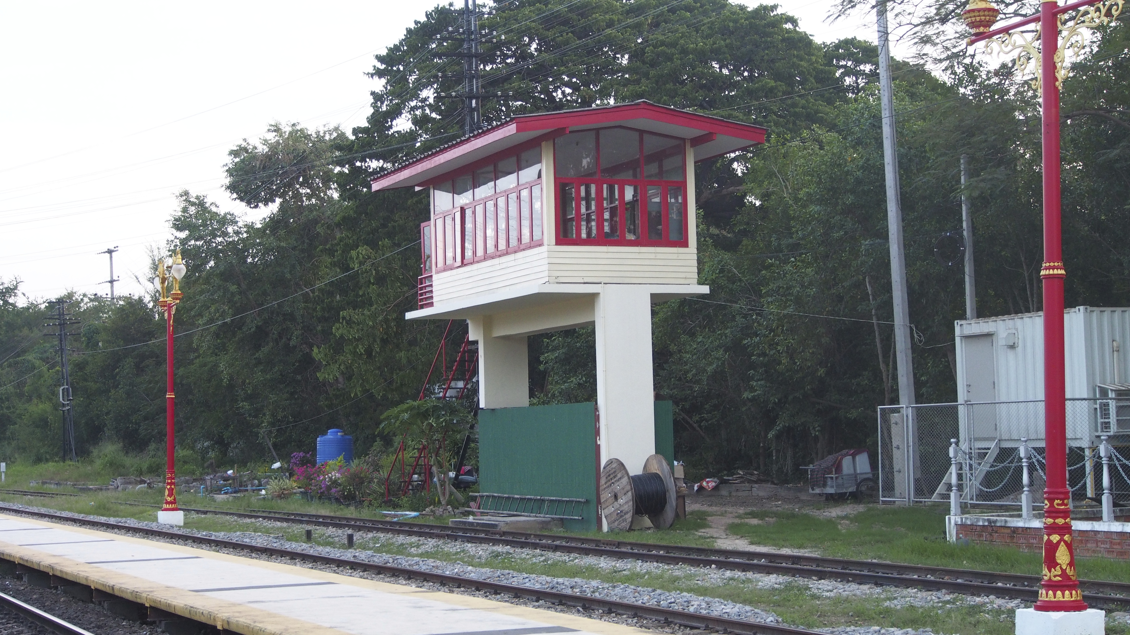 Hua Hin Railway Station